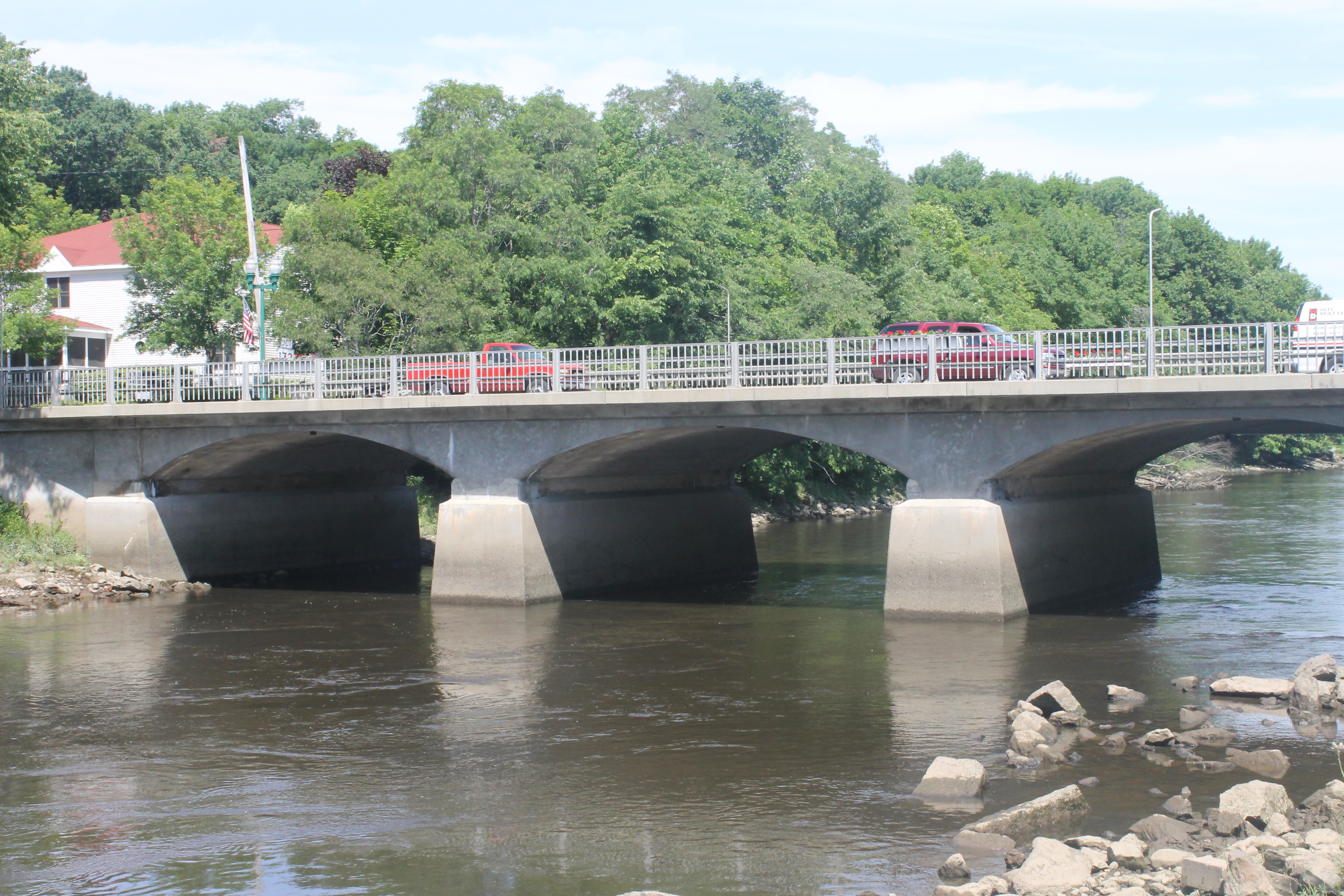 I took photo of Union River in Ellsworth, ME, with Canon camera.